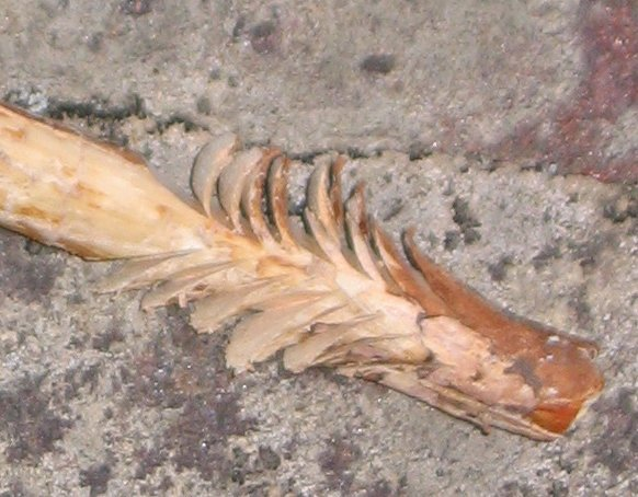 Photo showing a finished fuzz stick. A fuzz stick is useful for starting a campfire.